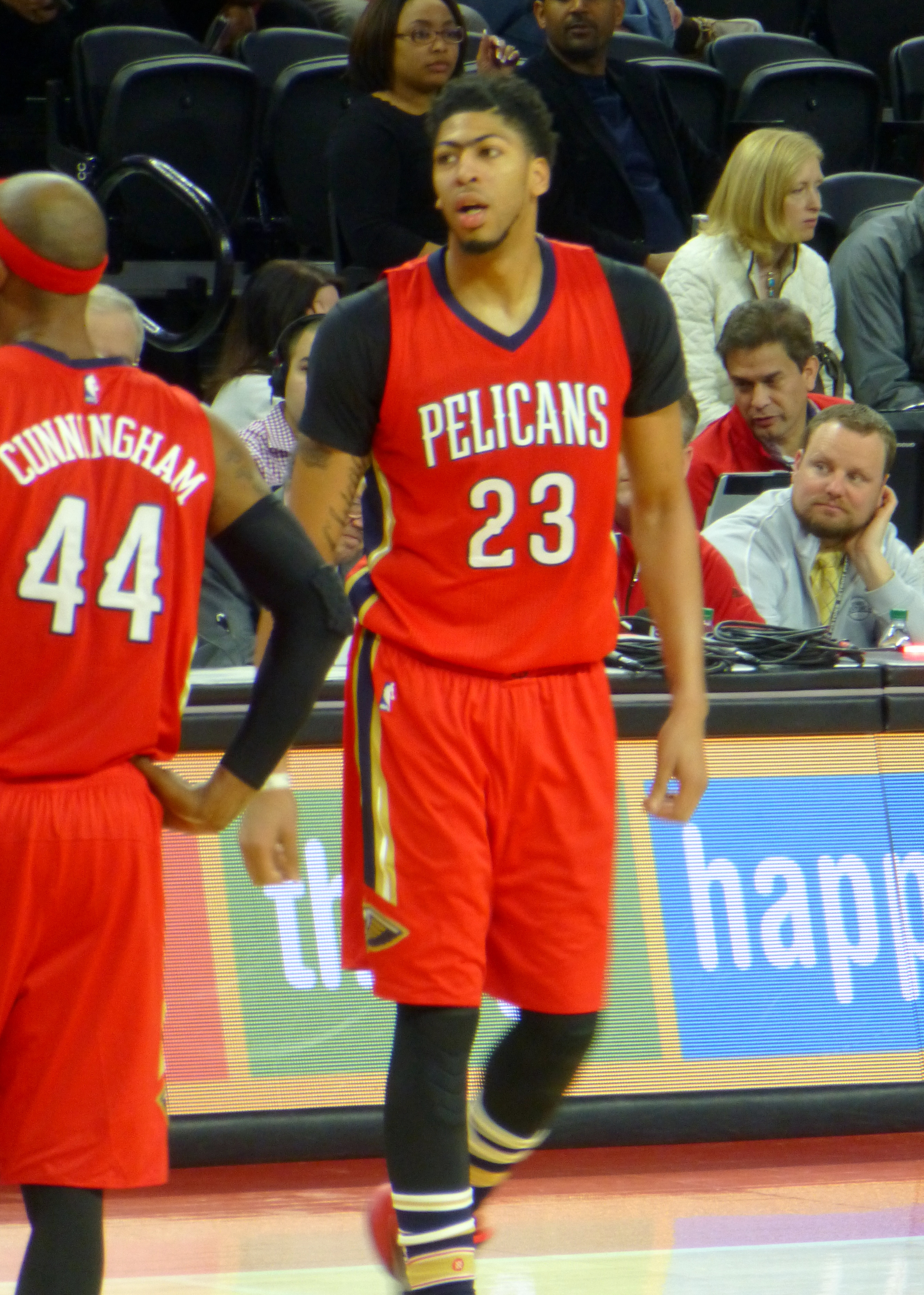 Pictures from Anthony Davis's historic 59 points, 20 rebound game. New Orleans Pelicans at Detroit Pistons at the Palace of Auburn Hills, 2/21/16